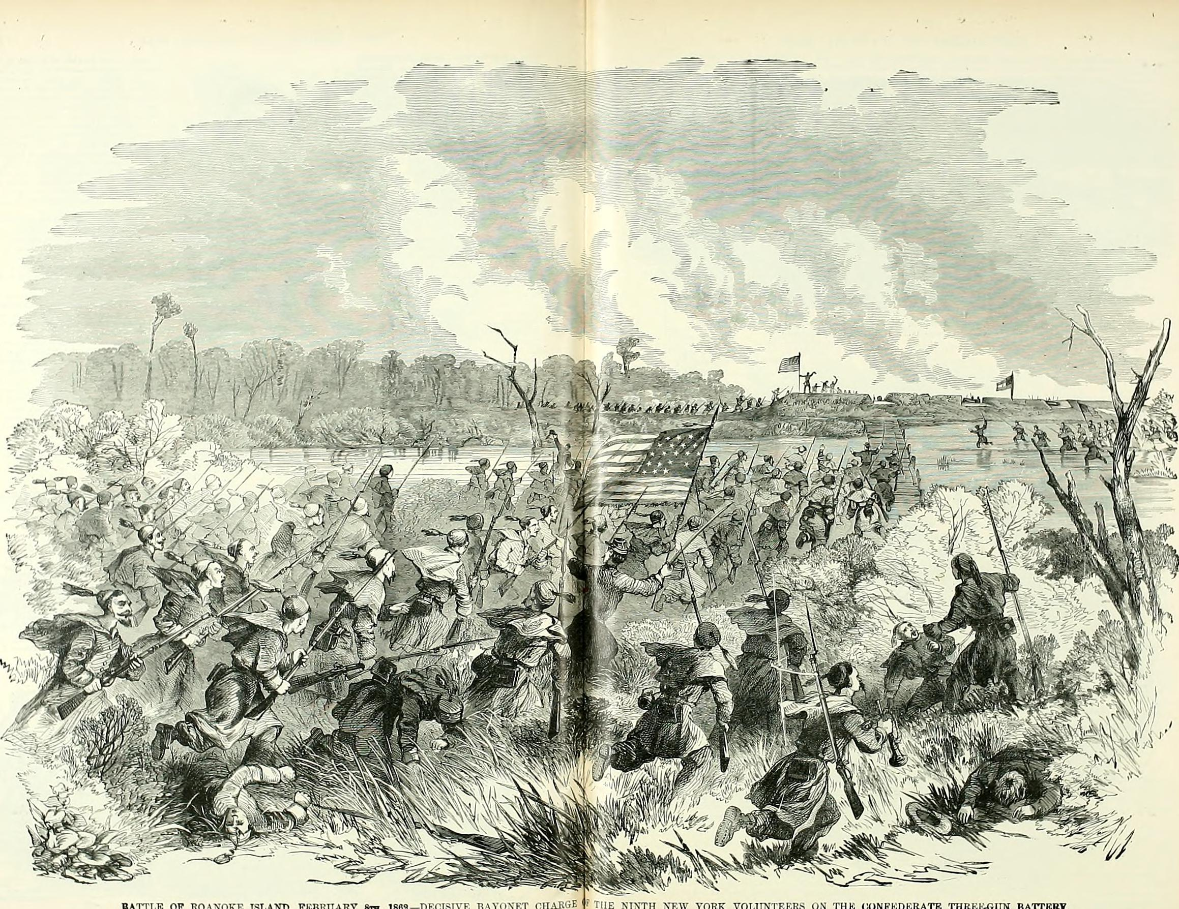 Title: The soldier in our Civil War : a pictorial history of the conflict, 1861-1865, illustrating the valor of the soldier as displayed on the battle-field, from sketches drawn by Forbes, Waud, Taylor, Beard, Becker, Lovie, Schell, Crane and numerous other eye-witnesses to the strife Year: 1893 (1890s) Authors: Leslie, Frank, 1821-1880 Mottelay, Paul Fleury, b. 1841, ed Campbell-Copeland, T. (Thomas), ed Beath, Robert B. (Robert Burns), 1839-1914 Vandervoort, Paul. History of the Grand Army of the Republic Avery, I. W. (Isaac Wheeler), 1837-1897. History of the Confederate Veterans' Association Davis, A. P. History of the Sons of Veterans Merrill, Frank P. History of the Sons of Veterans Subjects: United States. Army United States. Navy Confederate States of America. Army Confederate States of America. Navy Grand Army of the Republic United Confederate Veterans Sons of Union Veterans of the Civil War Publisher: New York Atlanta : Stanley Bradley Pub. Co. Text Appearing Before Image: BATTLE OF ROANOKE ISLAND. FEBRUARY 8m, 1882—DECISIVE BAYONET CHARGI Text Appearing After Image: r^fvW- BATTLE OF ROANOKE ISLAND. F£REUARY Sm, 186a—DECISIVE BAYONET CHAROE E NINTH NEW YORK VOLUNTEERS ON THE CONFEDERATE THREEGUN BATTEHY. THE SOLDIER IN OUR CIVIL WAR.